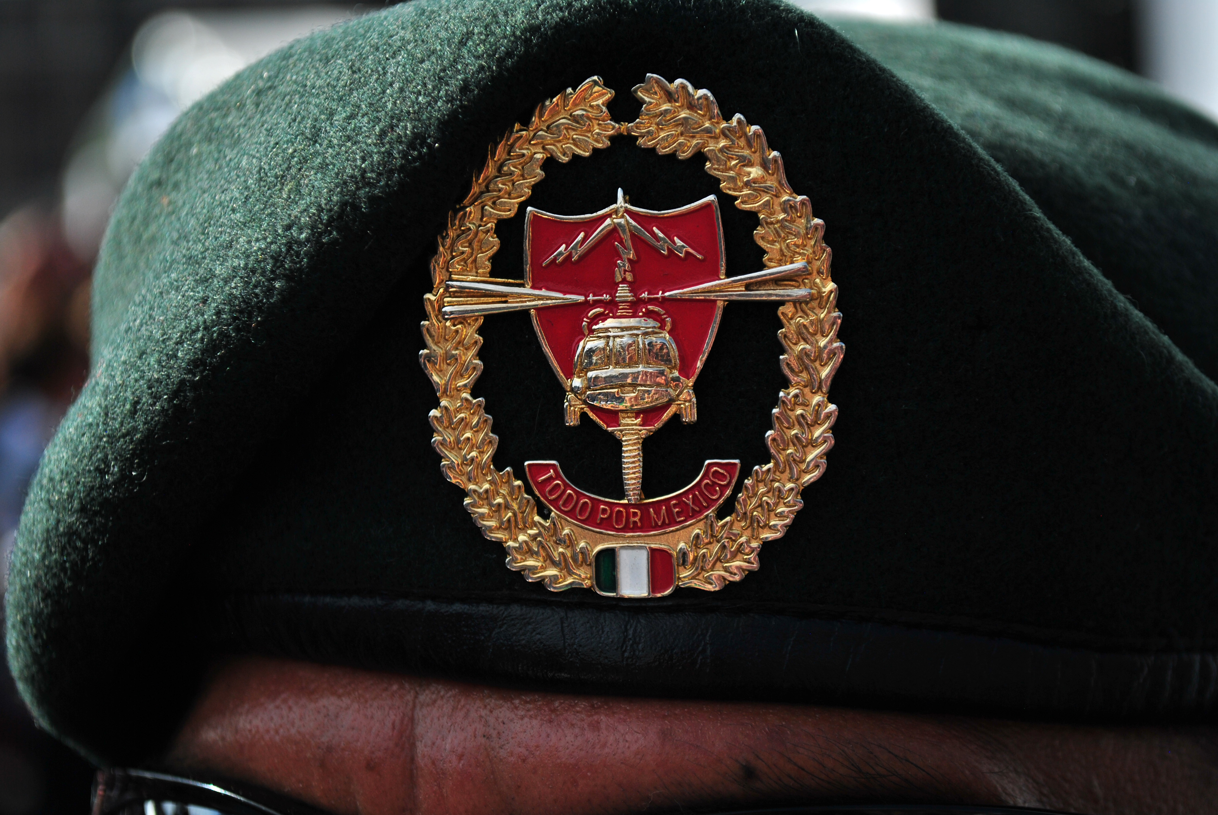 Member of the Special Forces Corps Mexico. Exhibition "Armed Forces ... passion for service to Mexico," Zócalo of Mexico City.